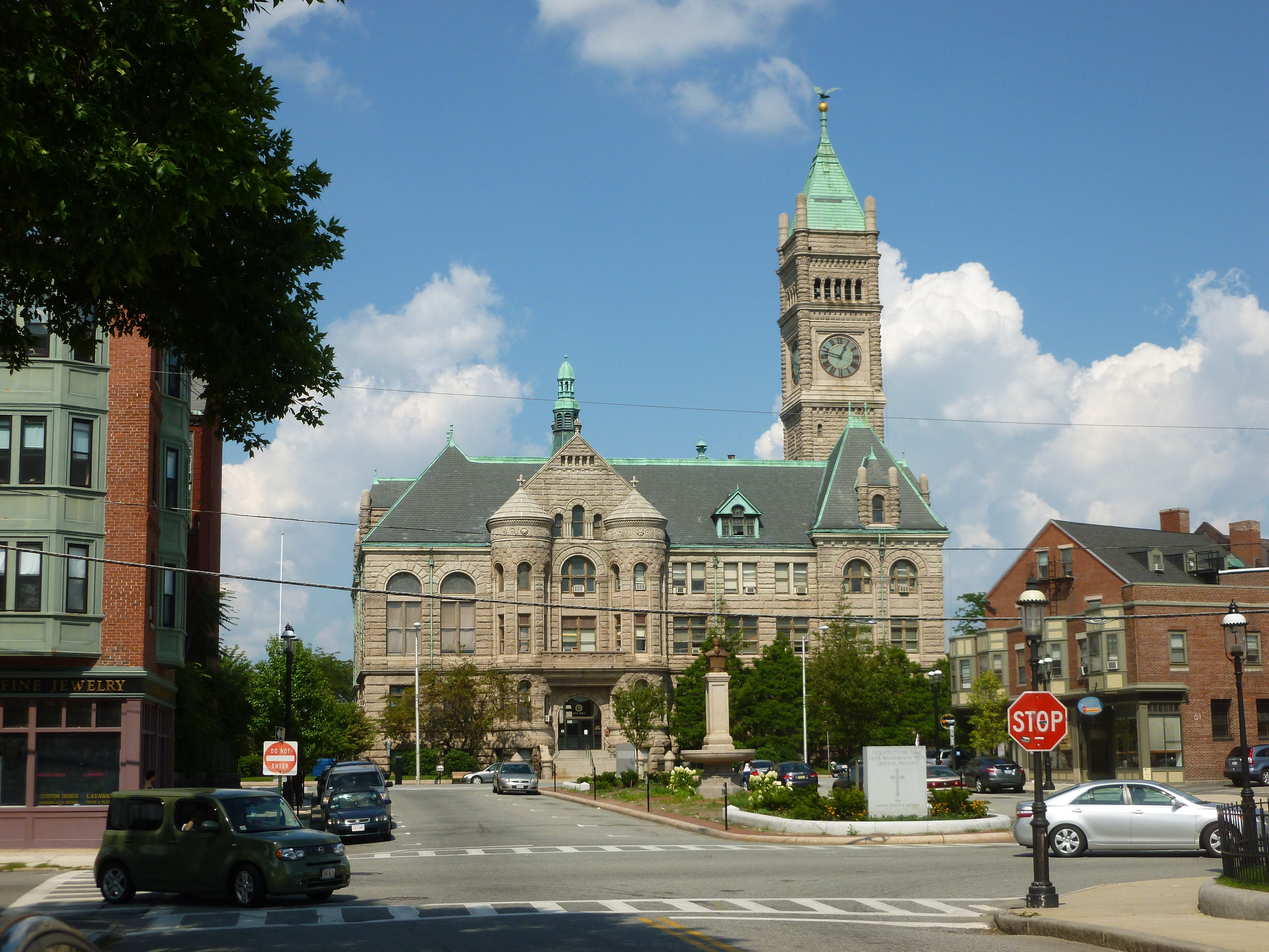 Lowell City Hall, located at 375 Merrimack Street Lowell, Massachusetts. Southwest side of building shown. Visible in the foreground is a raised island containing monuments to the city's early Greek immigrants, Cardinal O'Connell, and the city's Irish-American Community.